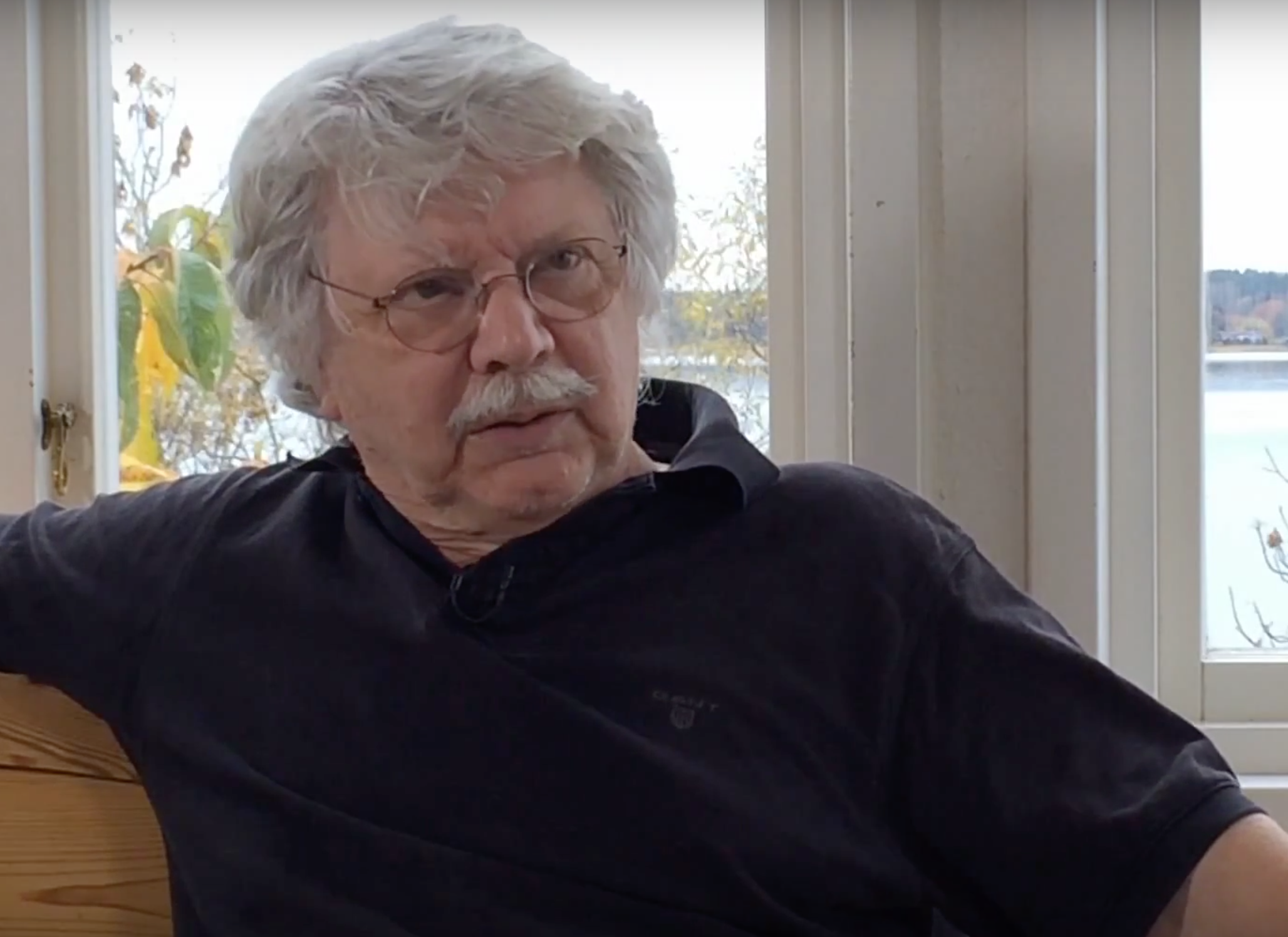 Anders Gillner, Swedish Internet entrepreneur. Screenshot from a video interview made by Internetmuseum.